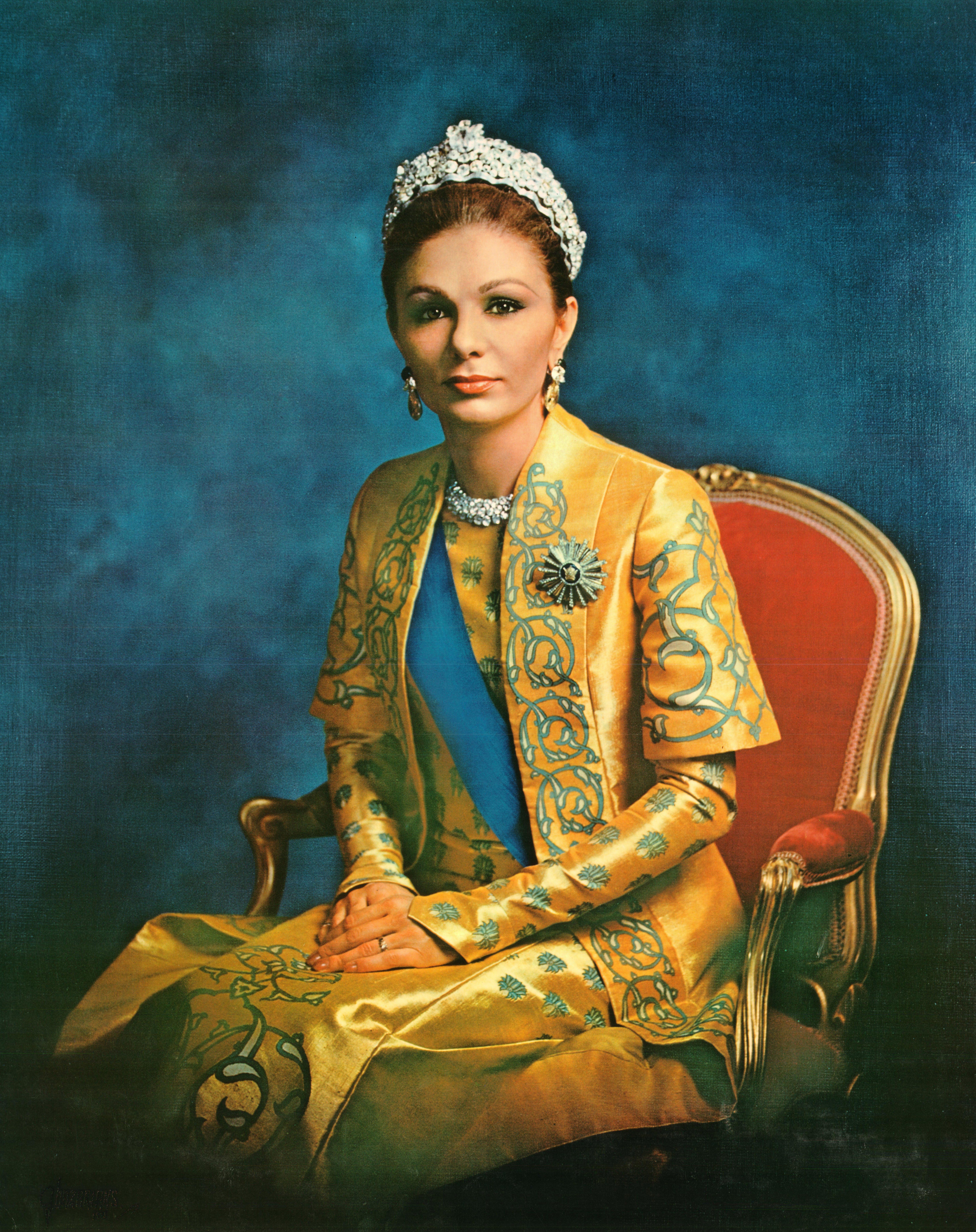 Farah Pahlavi- former Queen (Shahbanu) of Iran